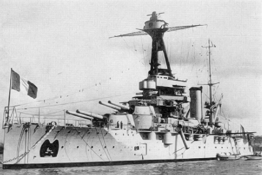 The Provence, ONI203 booklet for identification of ships of the French Navy, published by the Division of Naval Inteligence of the Navy Department of the United States (9 November 1942).